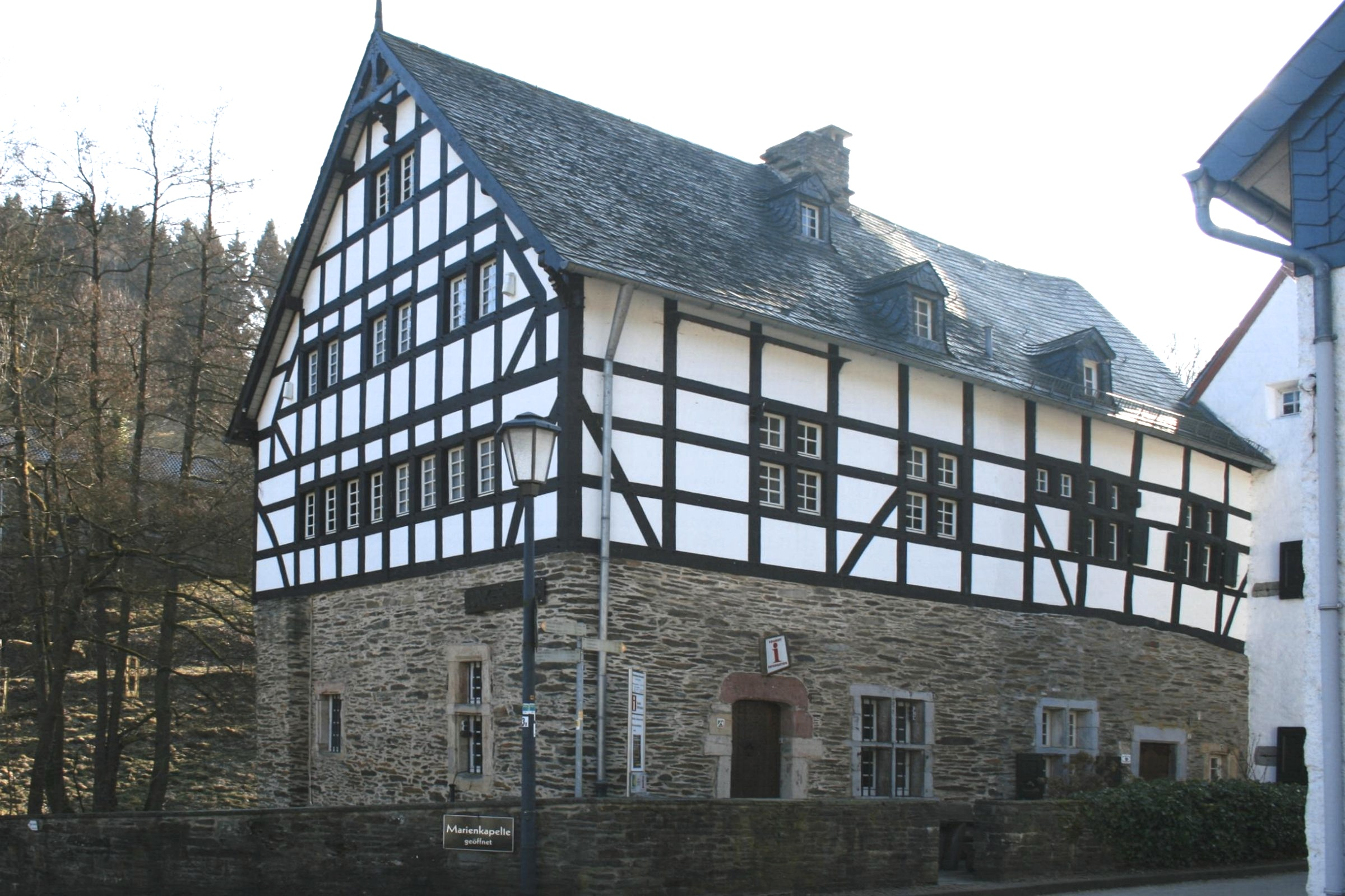 Cultural heritage monument No. 14 in Hürtgenwald